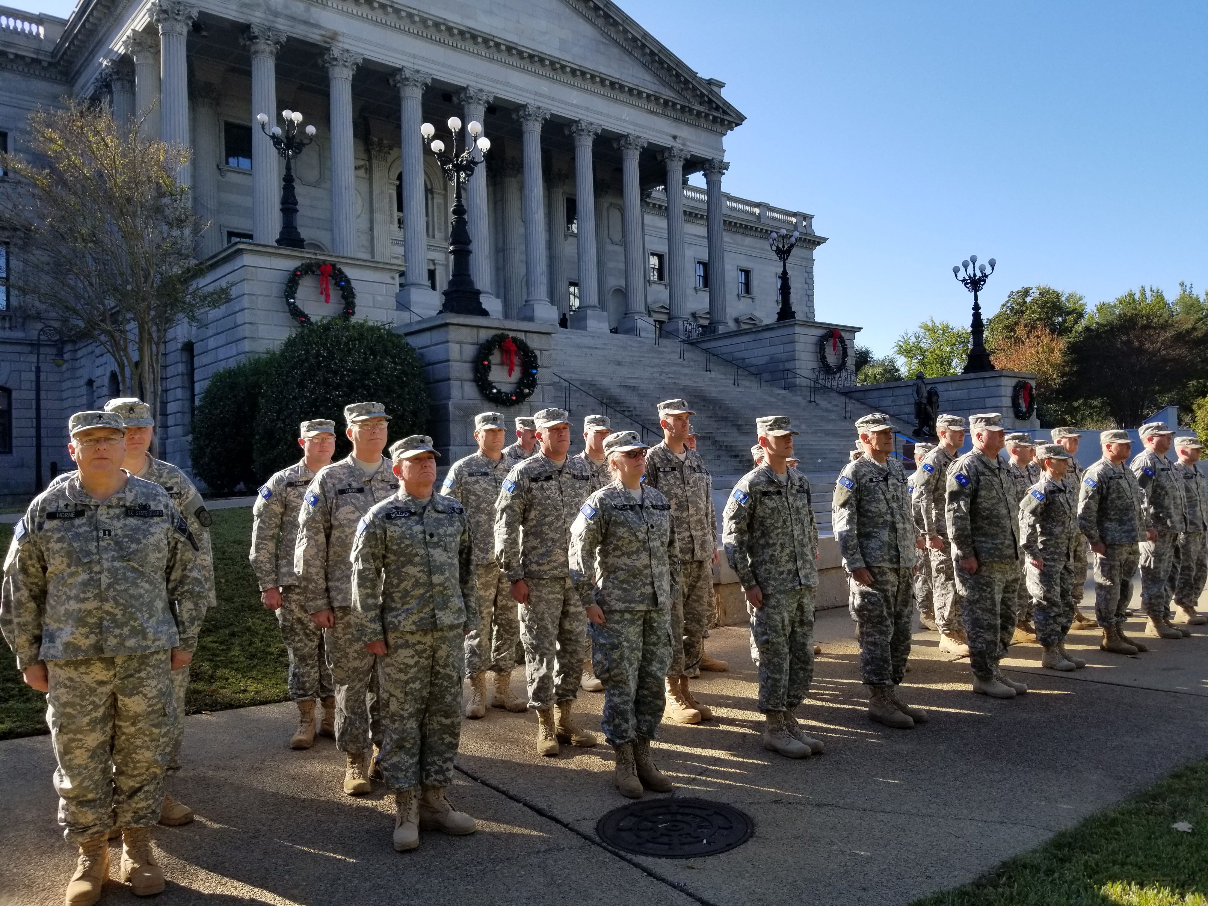 Members of the Historic South Carolina State Guard assembled on the lawn of the SC State House in Columbia, SC